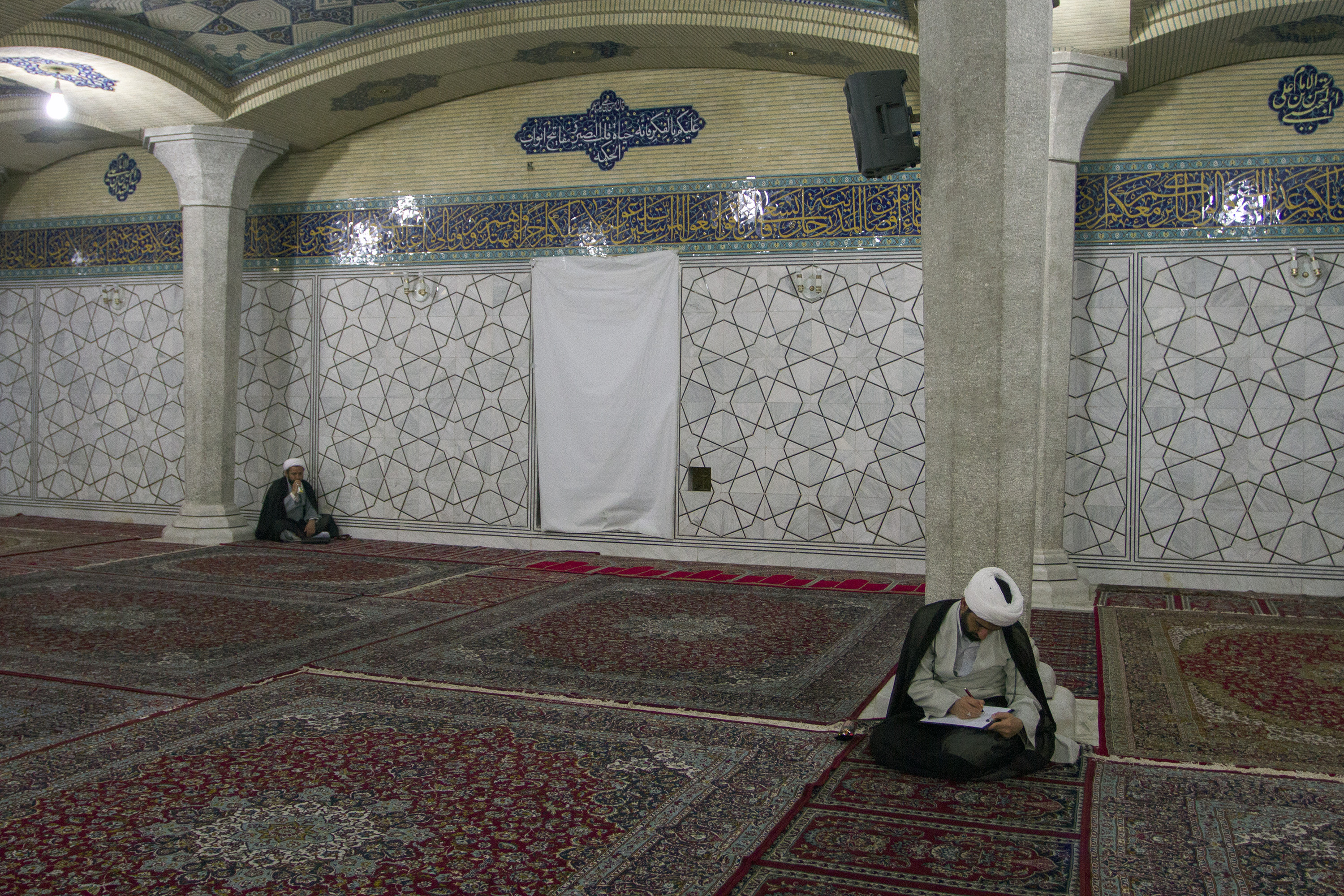 Clergy are some of the main and important formal leaders within certain religions.